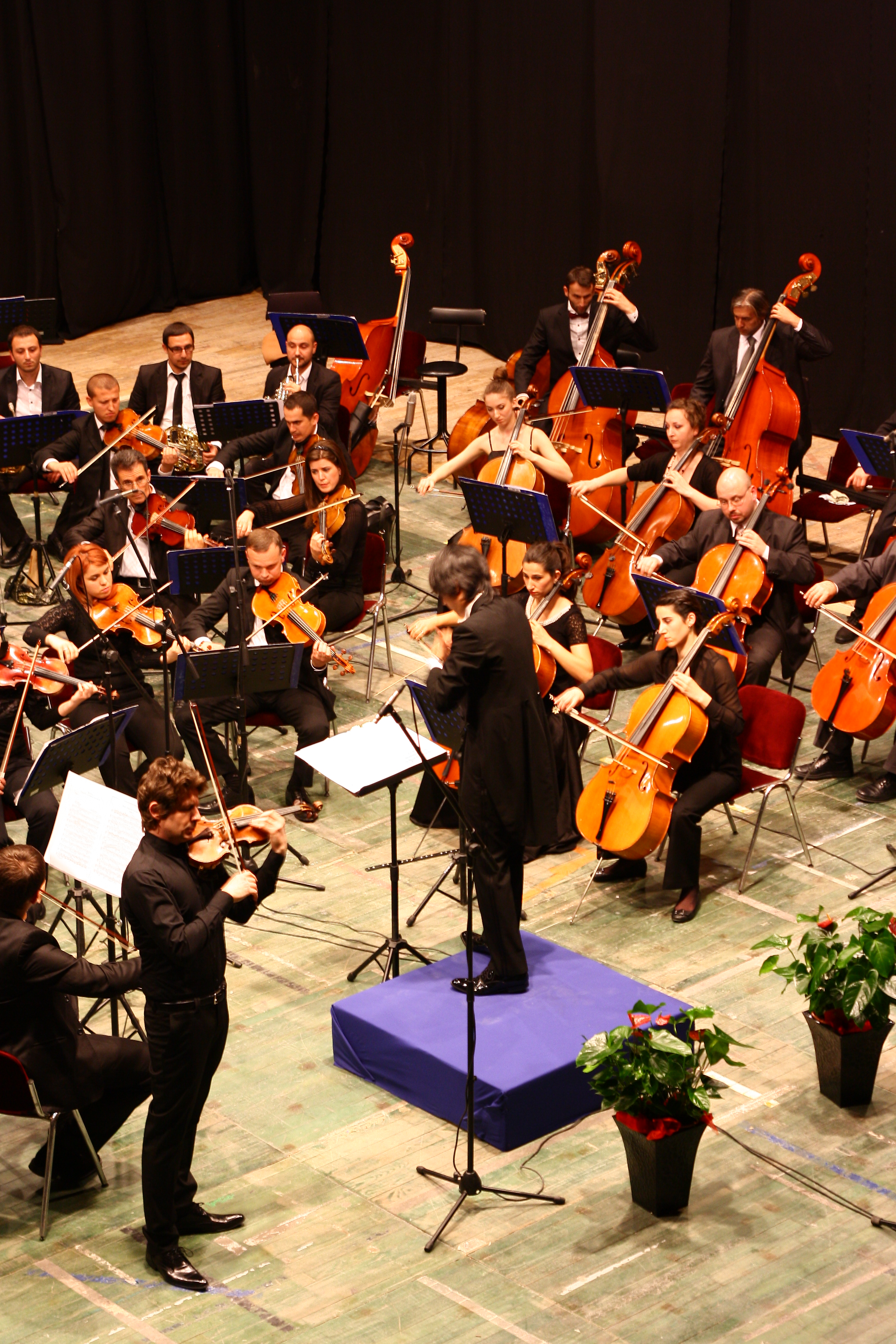 Emir Abeshi and Kosovo Philharmony